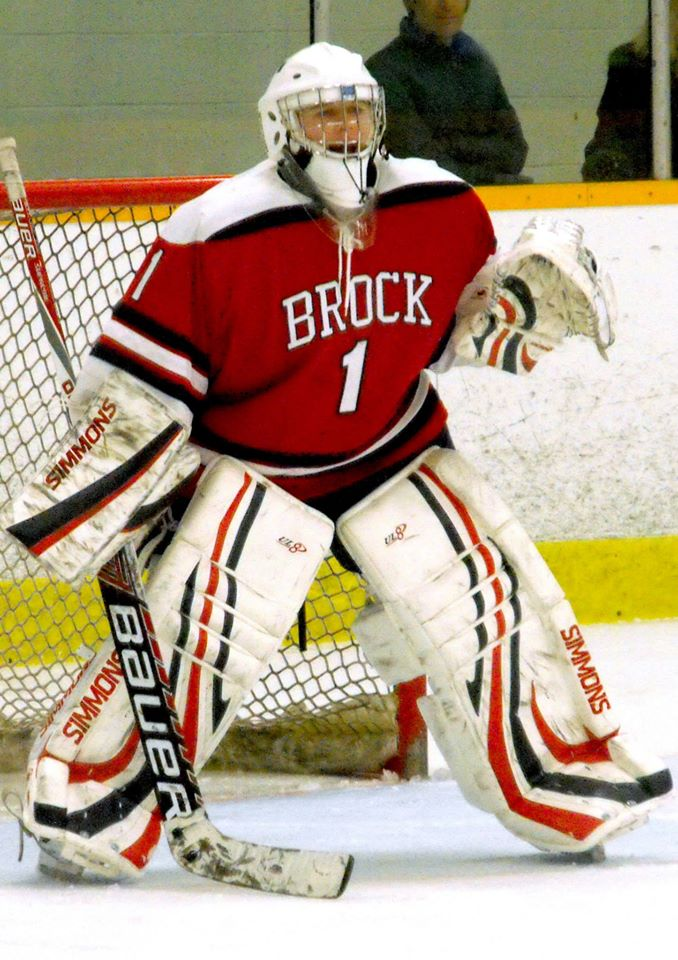 This photo was taken by Devan Mighton during the 2014-15 OUA season.